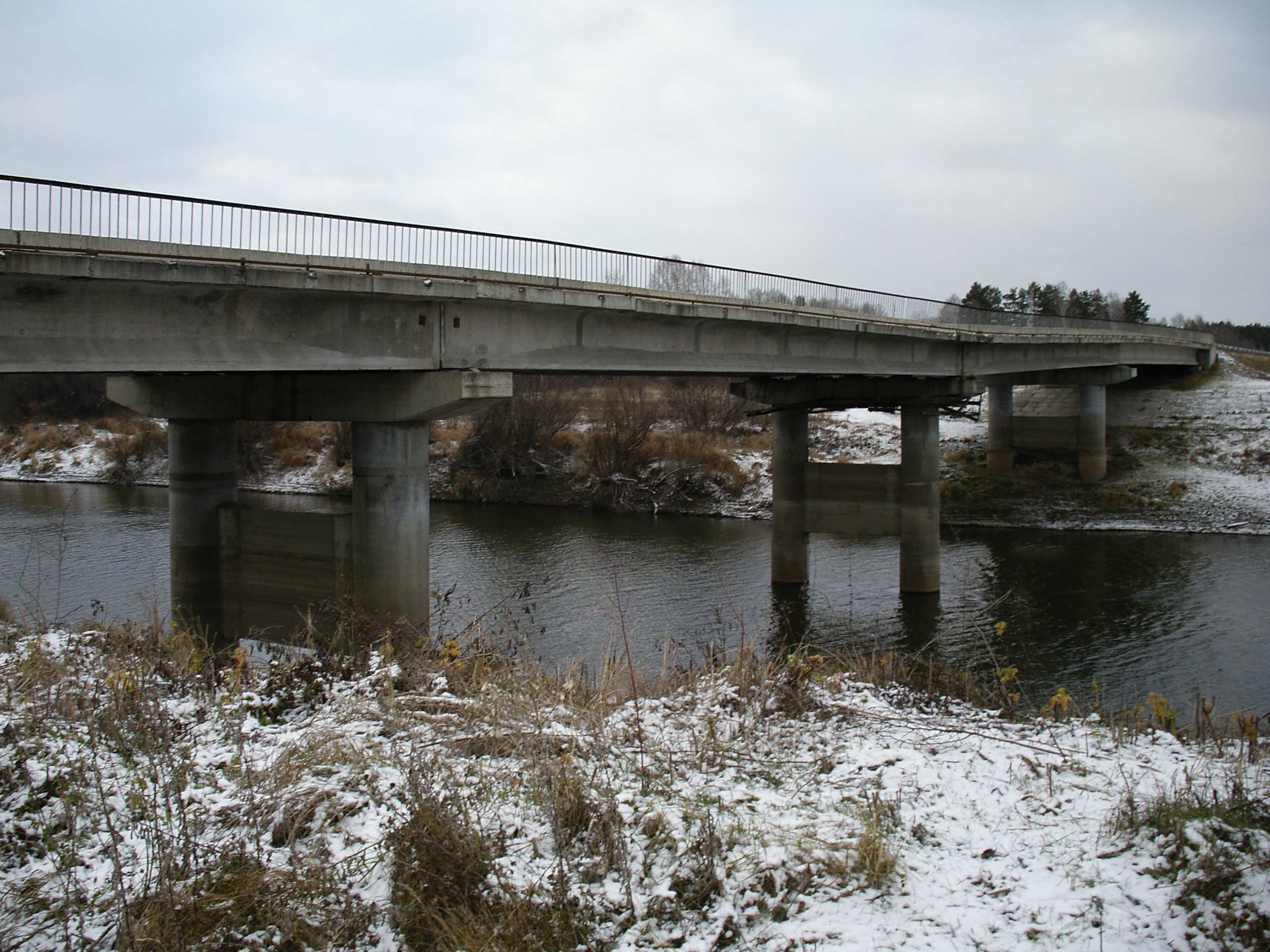 Bridge over Pyshma River on Tugulym — Zavodouspenskoe Road